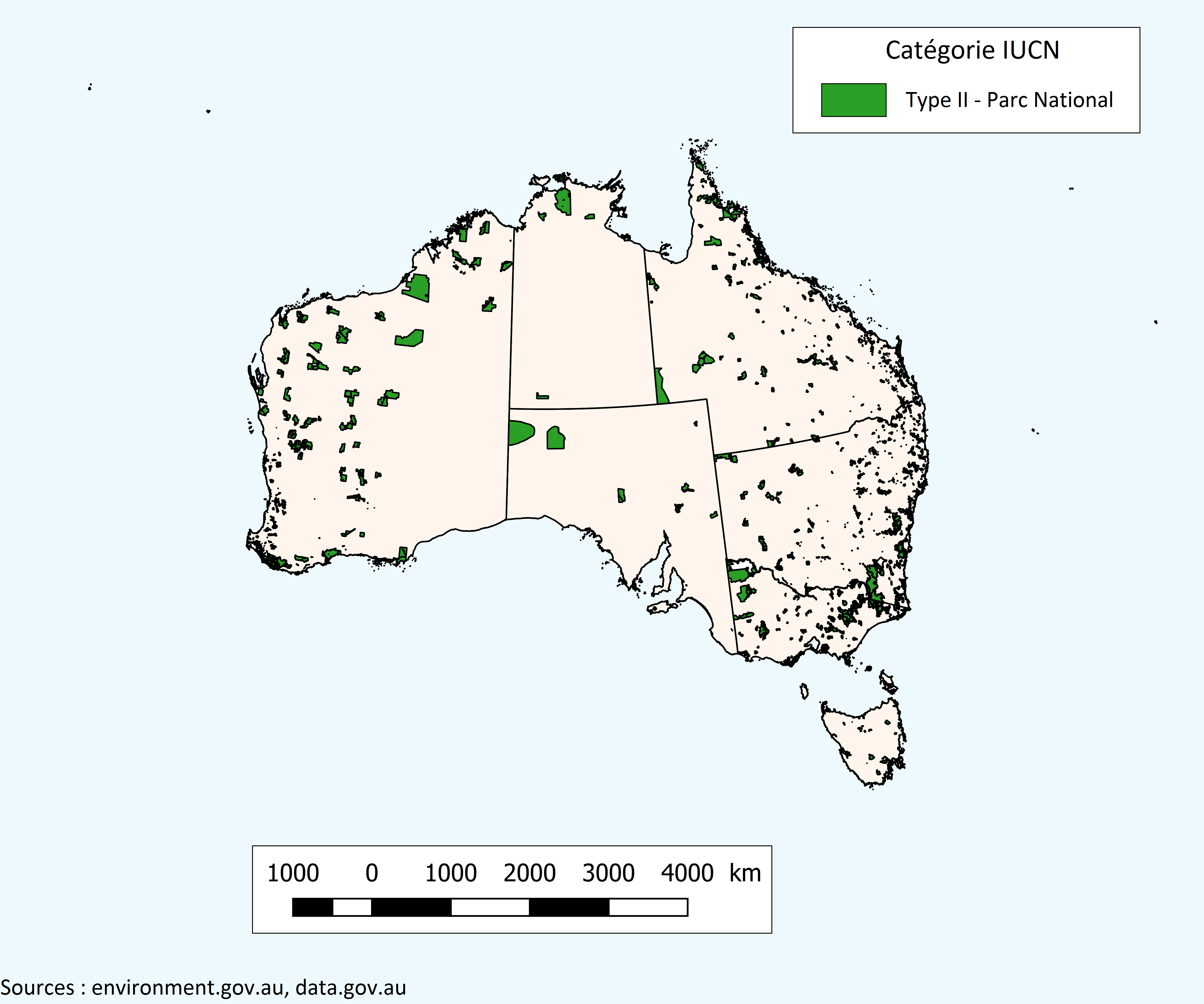 Australia's map of Category II IUCN